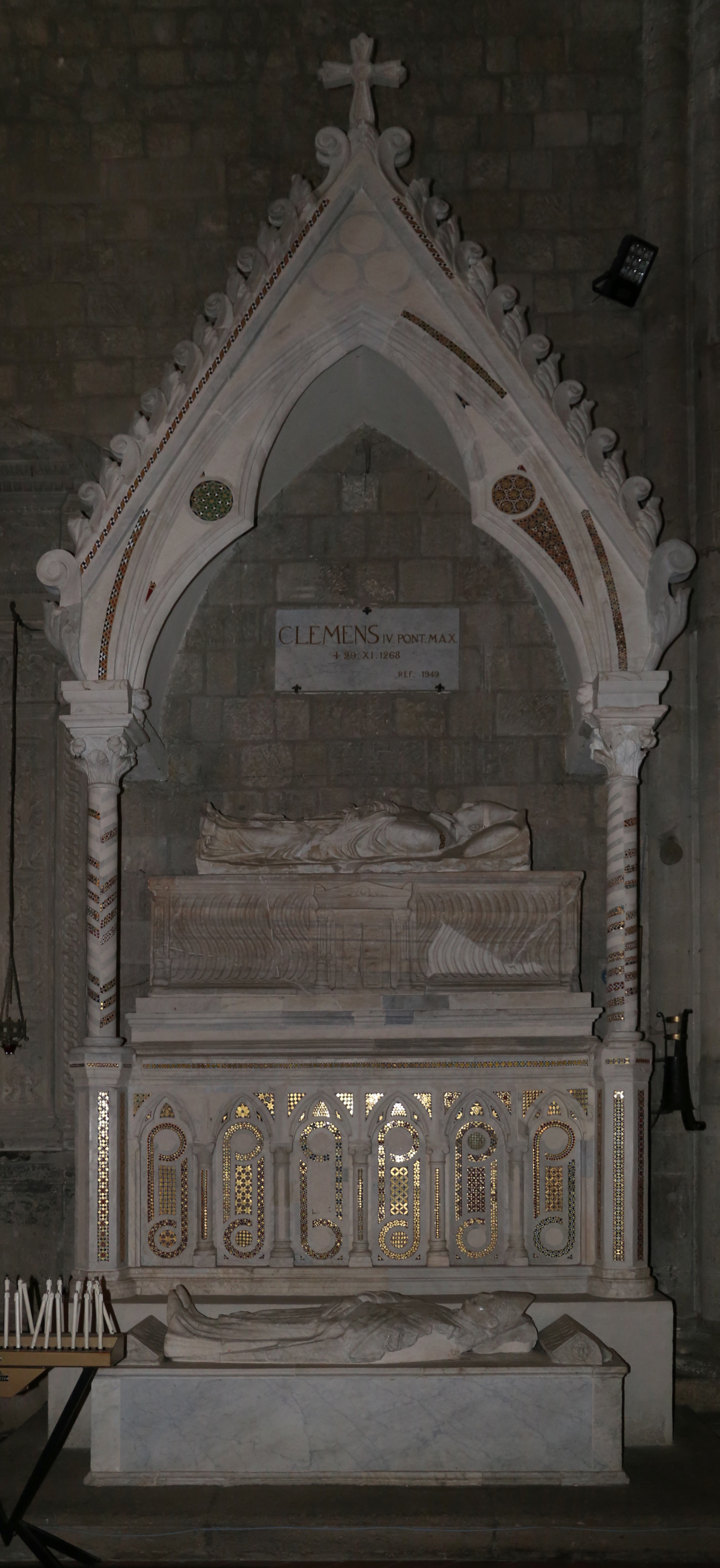 San Francesco alla Rocca (Viterbo)